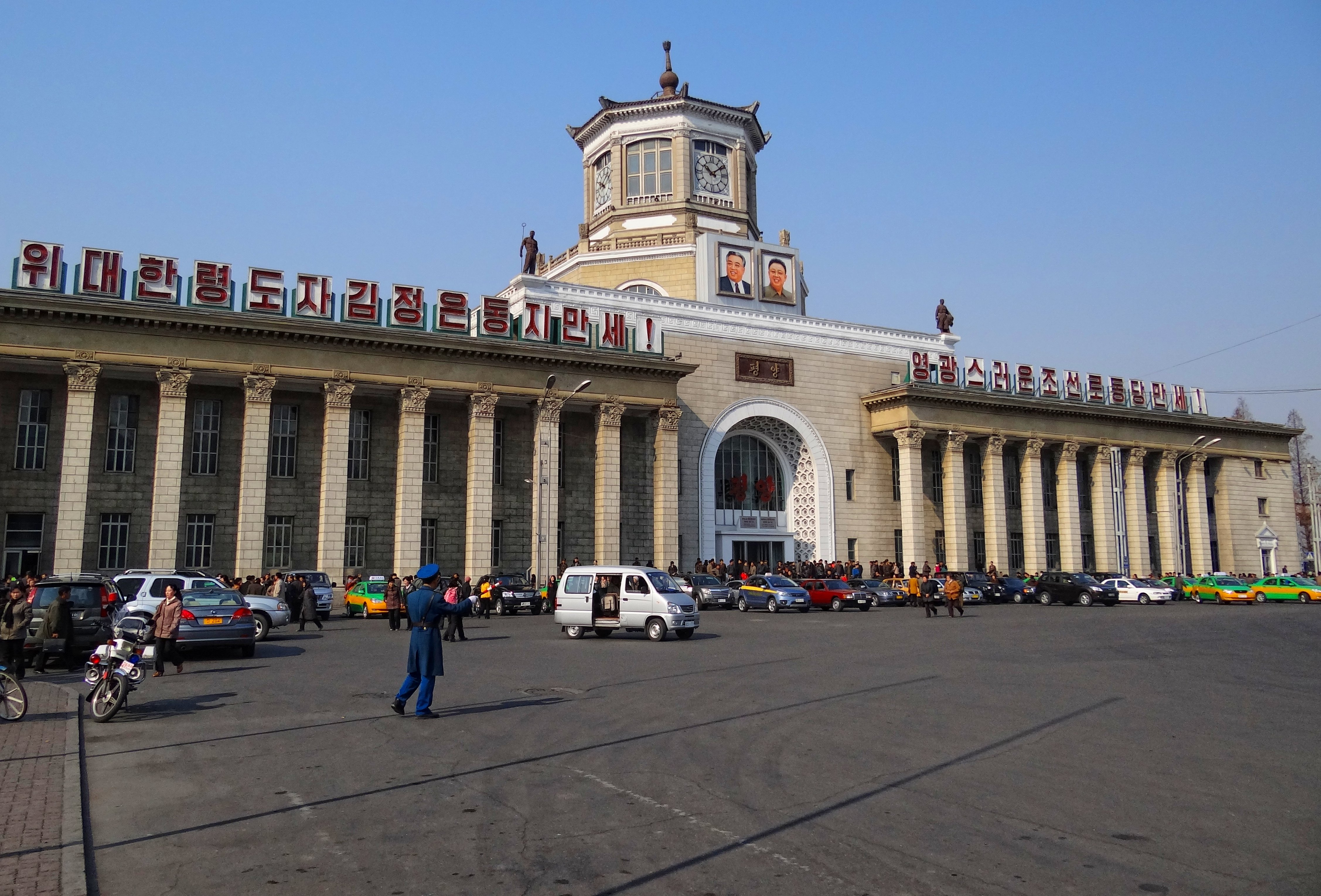 The facade of the main railway station in Pyongyang, North Korea.text reading:위대한 영도자 김정은 동지 만세!Long live the Great Leader Comrade Kim Jong-un!영광스러운 조선 로동당 만세!Long live the glorious Workers' Party of Korea!